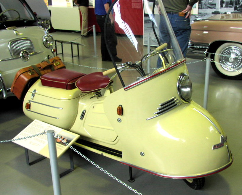 Maico Mobil 1975 Scooter, built in 1953 by Maico-Werke, Pfäffingen-Tübingen — Inv. No. 1995-96